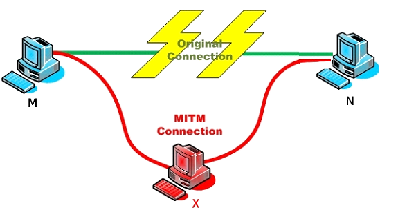 تمامی‌ترافیک بین M و N به جای این که مستقیم به هم ارسال شوند ابتدا از X عبور می‌کنند